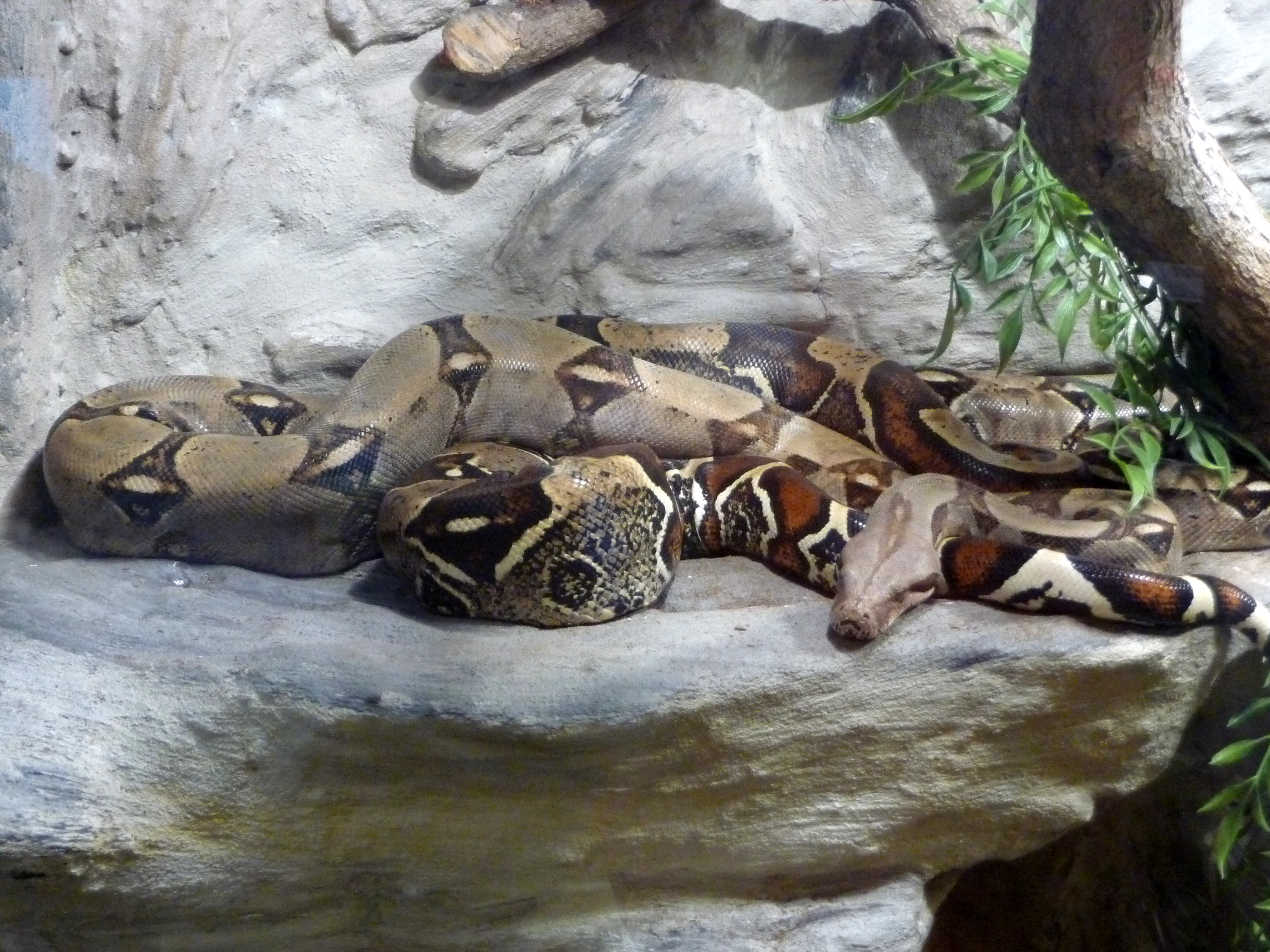 Boa constrictor, Terra Fauna exibition in shopping center Vaňkovka in Brno